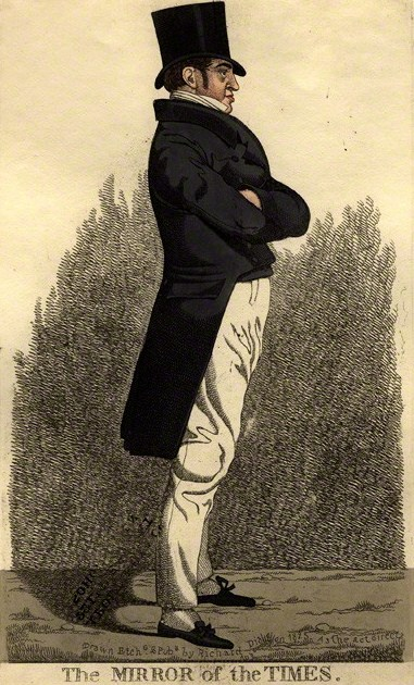 Portrait of Thomas Massa Alsager (1779–1846) as "the Mirror" of The Times newspaper.